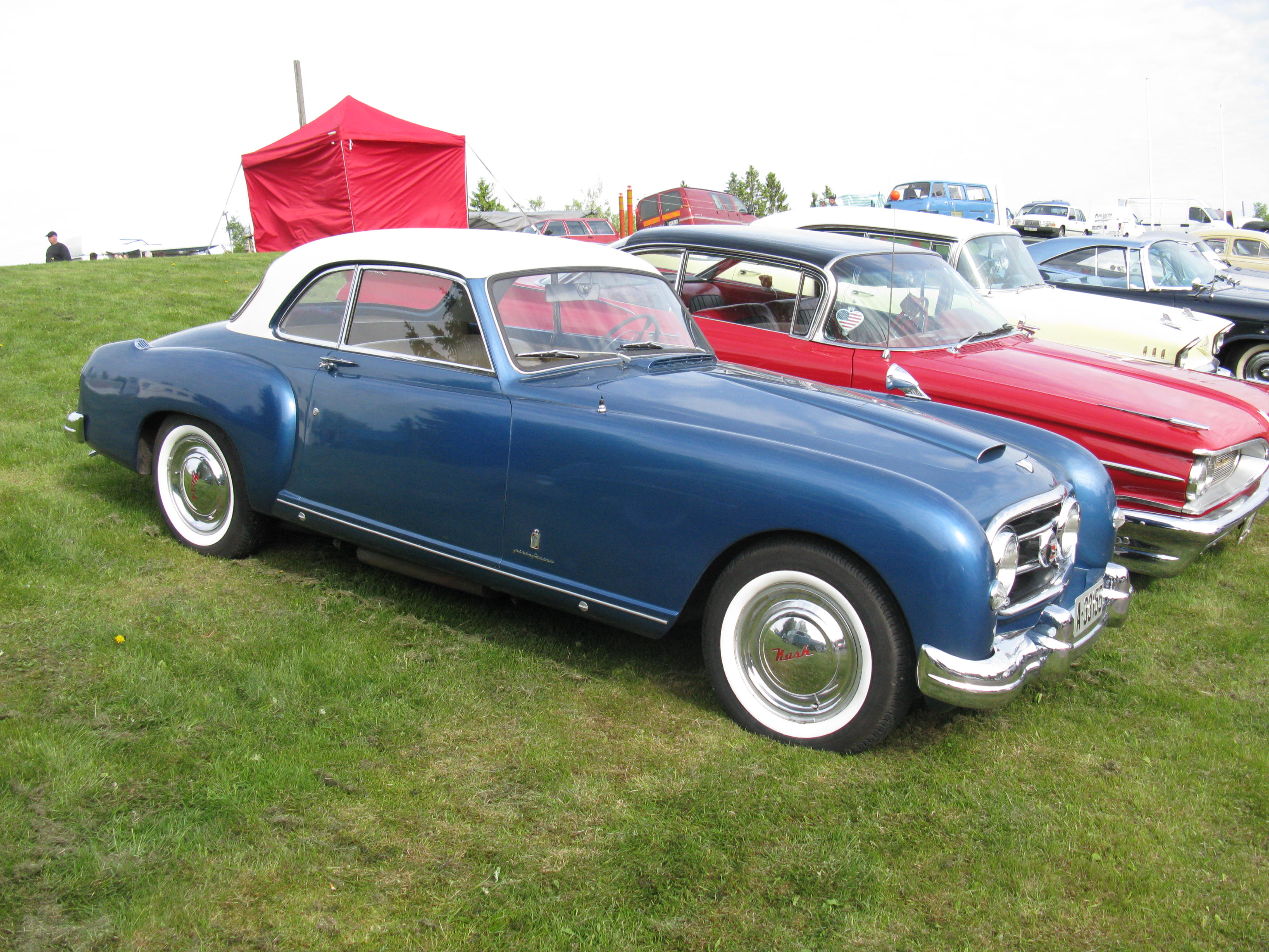 Nash Healey